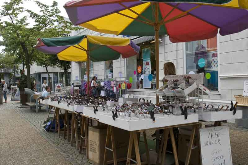 Street vendor in Frederikshavn, Denmark